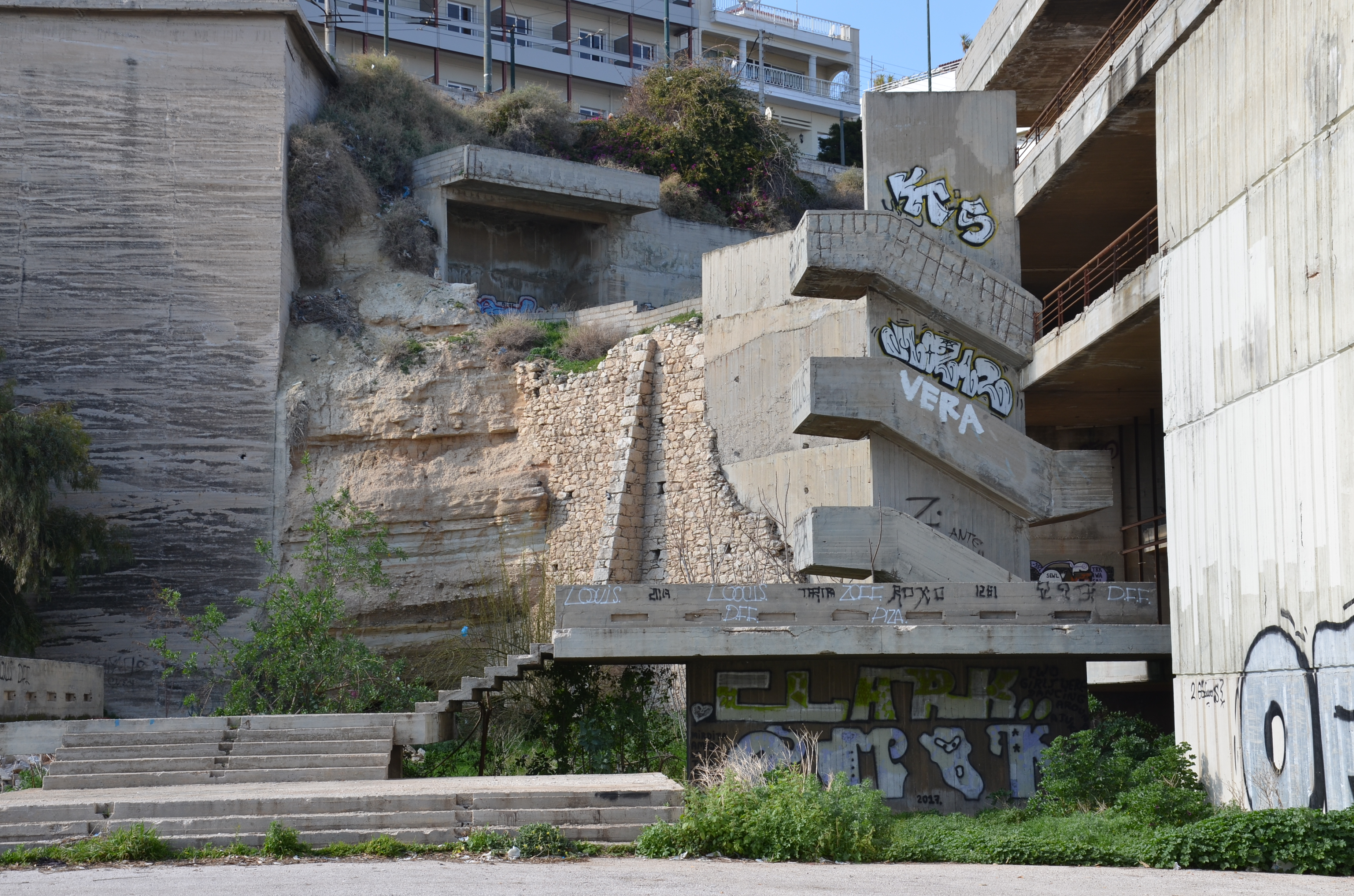 Liapis, Cultural Center